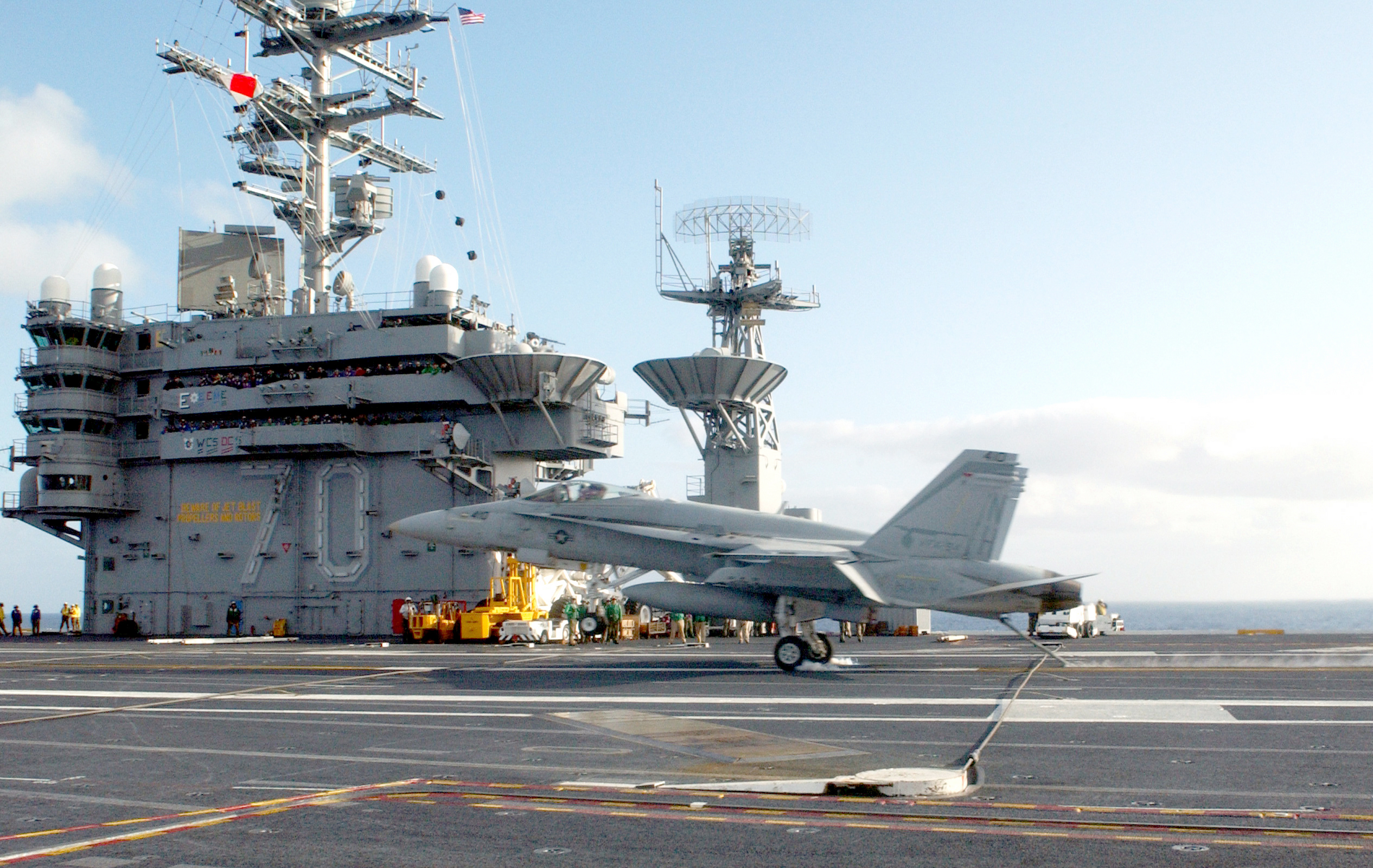 At sea aboard USS Carl Vinson - An F/A-18C “Hornet” from the "Mighty Shrikes" of Strike Fighter Squadron Nine Four (VFA-94) is the first aircraft to land aboard USS Carl Vinson's flight deck since completing a scheduled maintenance up-keep. The aircraft is seen about to catch the #3 wire, the arresting cable the pilots aim for in a space of deck about 80 feet long, at about 135 knots.